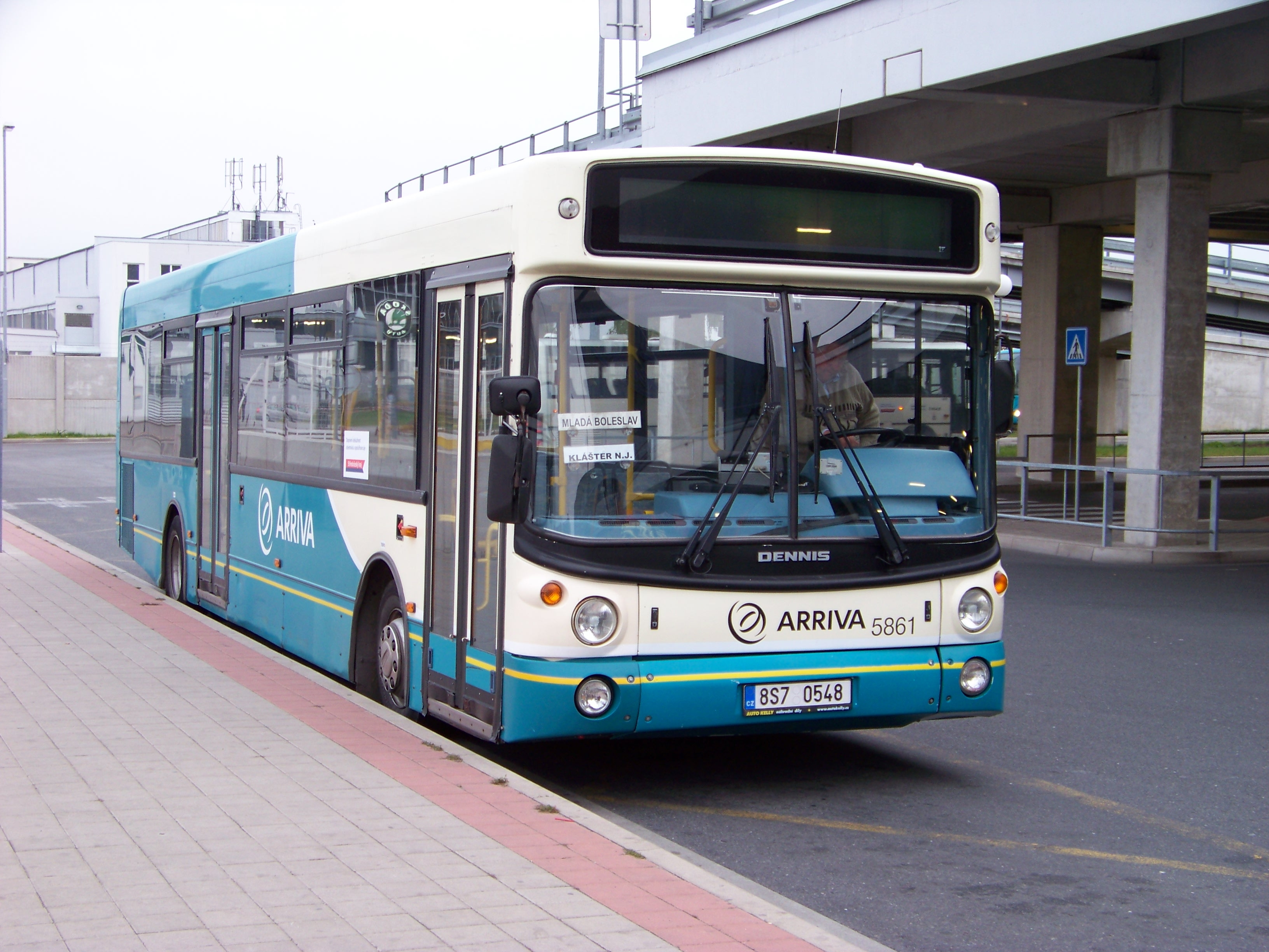 Mladá Boleslav, Central Bohemian Region, the Czech Republic. A bus station, a Dennis bus of Transcentrum Bus company (ex Arriva NL). - Google Maps - Google Earth